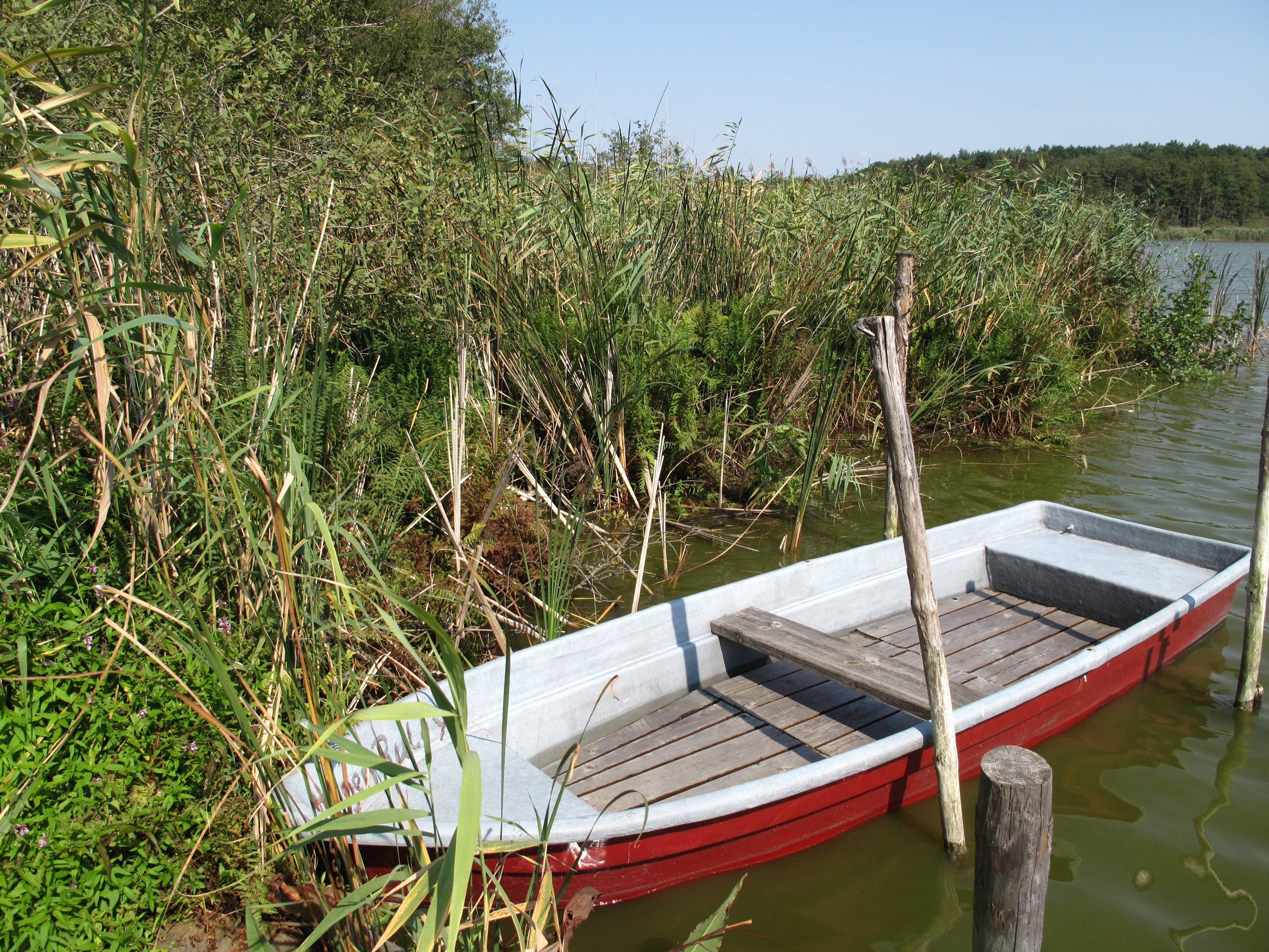 Western shore of the Schwenowsee. The Schwenowsee is a lake in the District Oder-Spree, Brandenburg, Germany. The lake is located in the village Schwenow, which belongs to Limsdorf, a part (german: Ortsteil) of the town Storkow. The lake covers 25 hectare. It is situated in the Dahme-Heideseen Nature Park and in the Naturschutzgebiet (protected area)/Natura 2000-area Naturschutzgebiet Schwenower Forst.